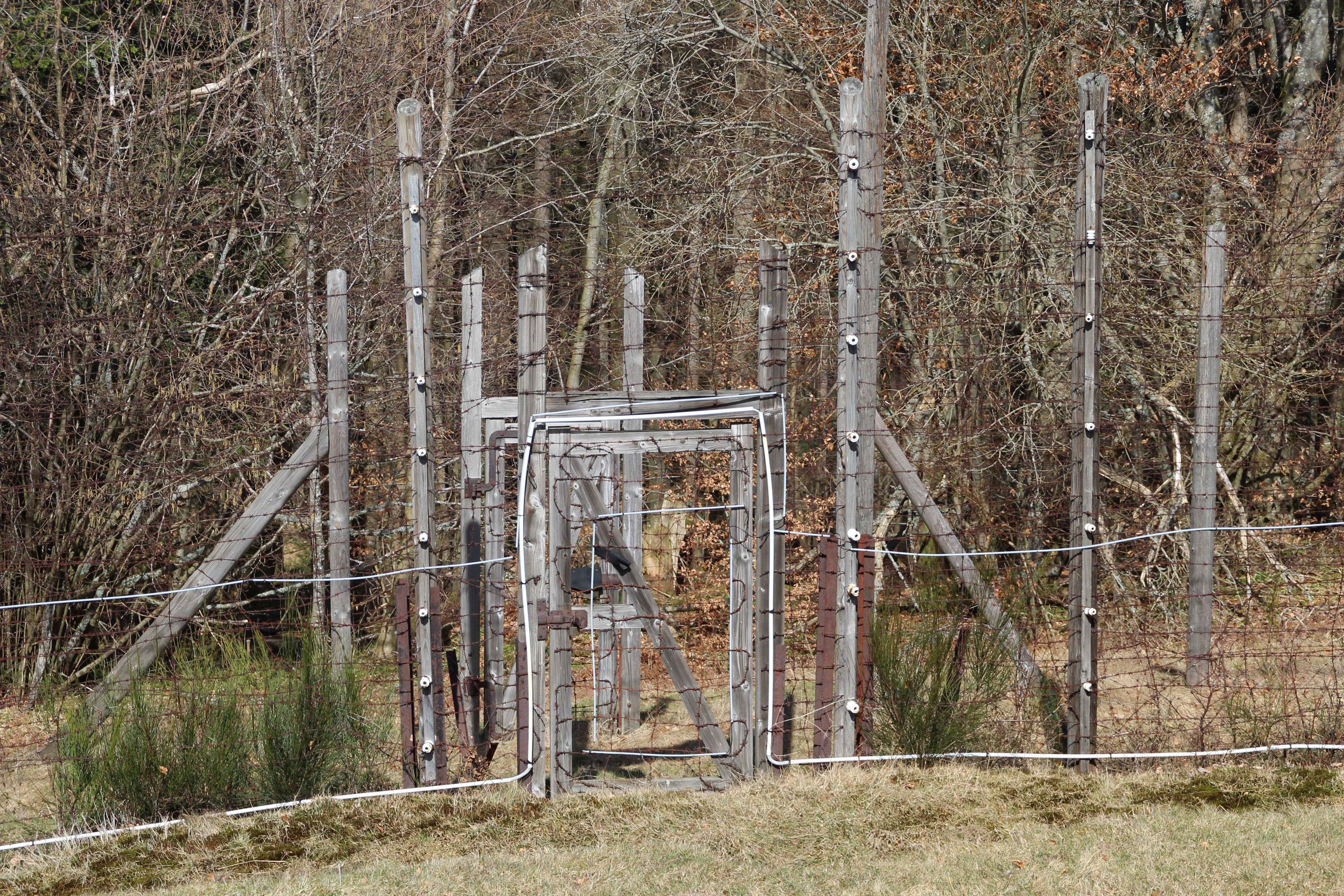 Natzweiler-Struthof concentration camp in Natzwiller, France. Object location48° 27′ 20.02″ N, 7° 15′ 14.58″ E .